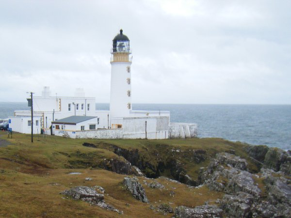 Rua Reidh Lighthouse near Gairloch, Wester Ross, Scotland